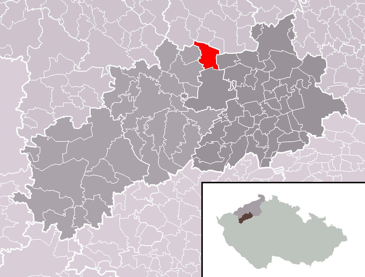 Location of Výškov municipality within Louny District and administrative area of Louny as a Municipality with Extended Competence.